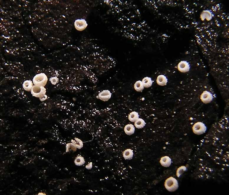 Fruit bodies of the cyphelloid fungus Flagelloscypha minutissima. Photographed in Jena, Thüringen, Germany.